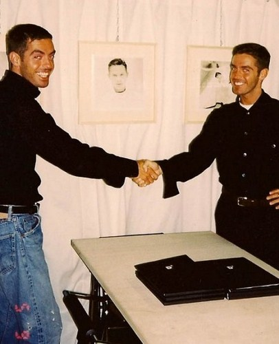 Dean and Dan Caten first office